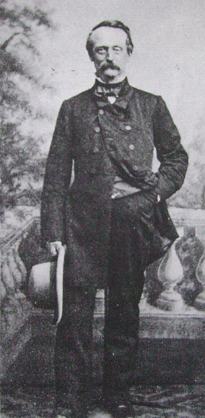 Picture of Carl Edvard Fritze, Swedish businessman